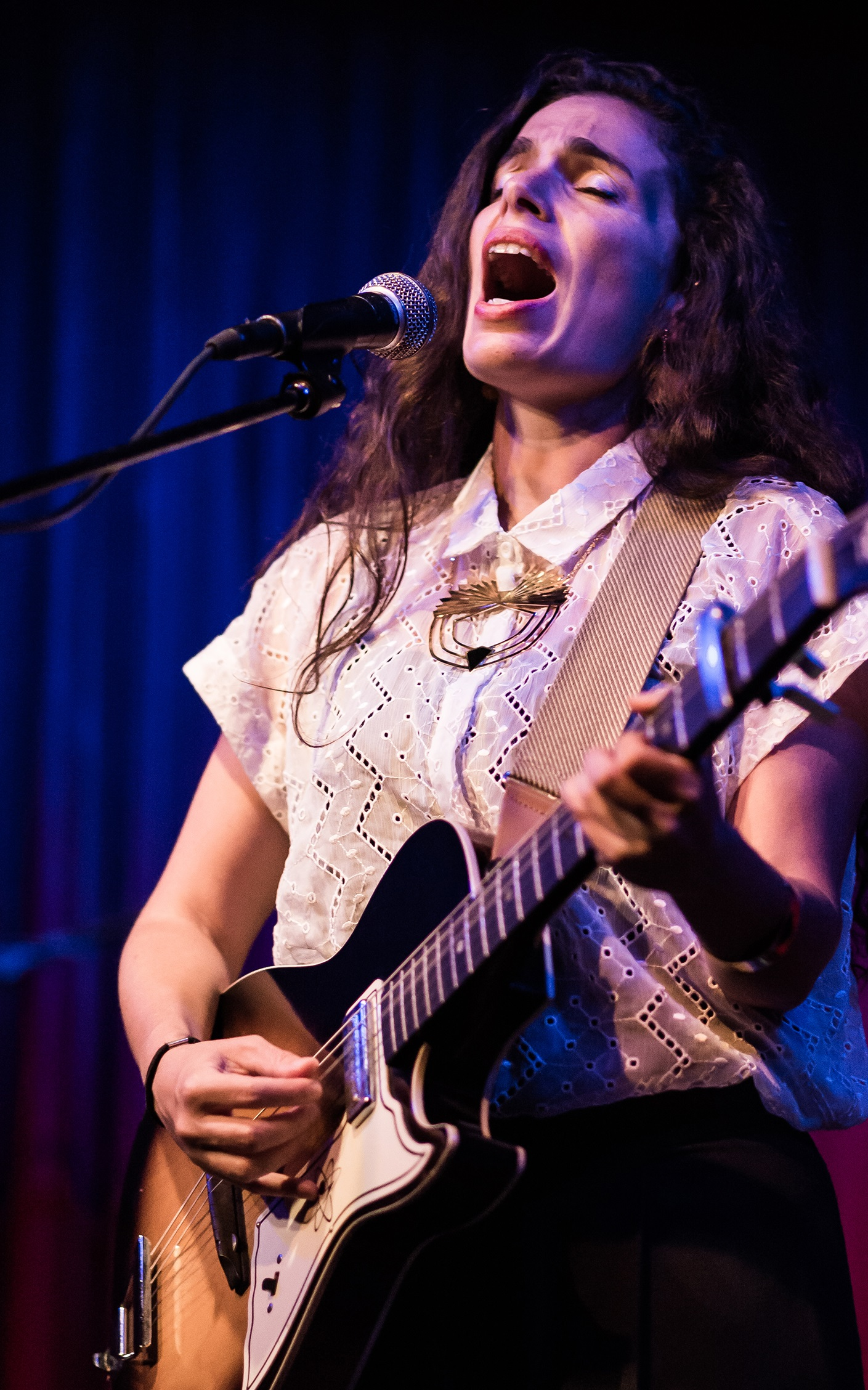 Yael Naim (Hotel Cafe in Hollywood, Los Angeles, California, Thursday - September 15th, 2016).Adapted version of the original